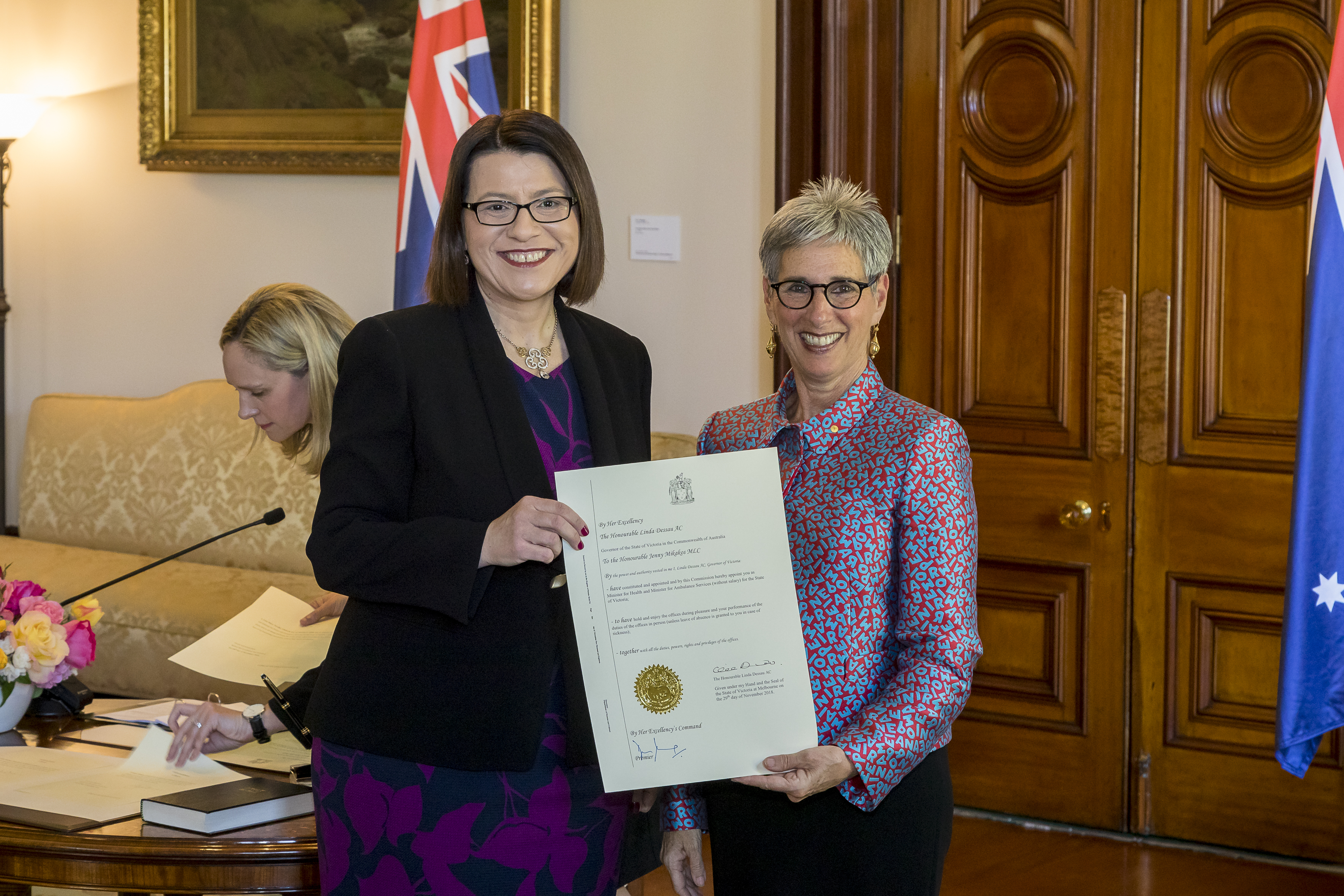 Jenny Mikakos MP